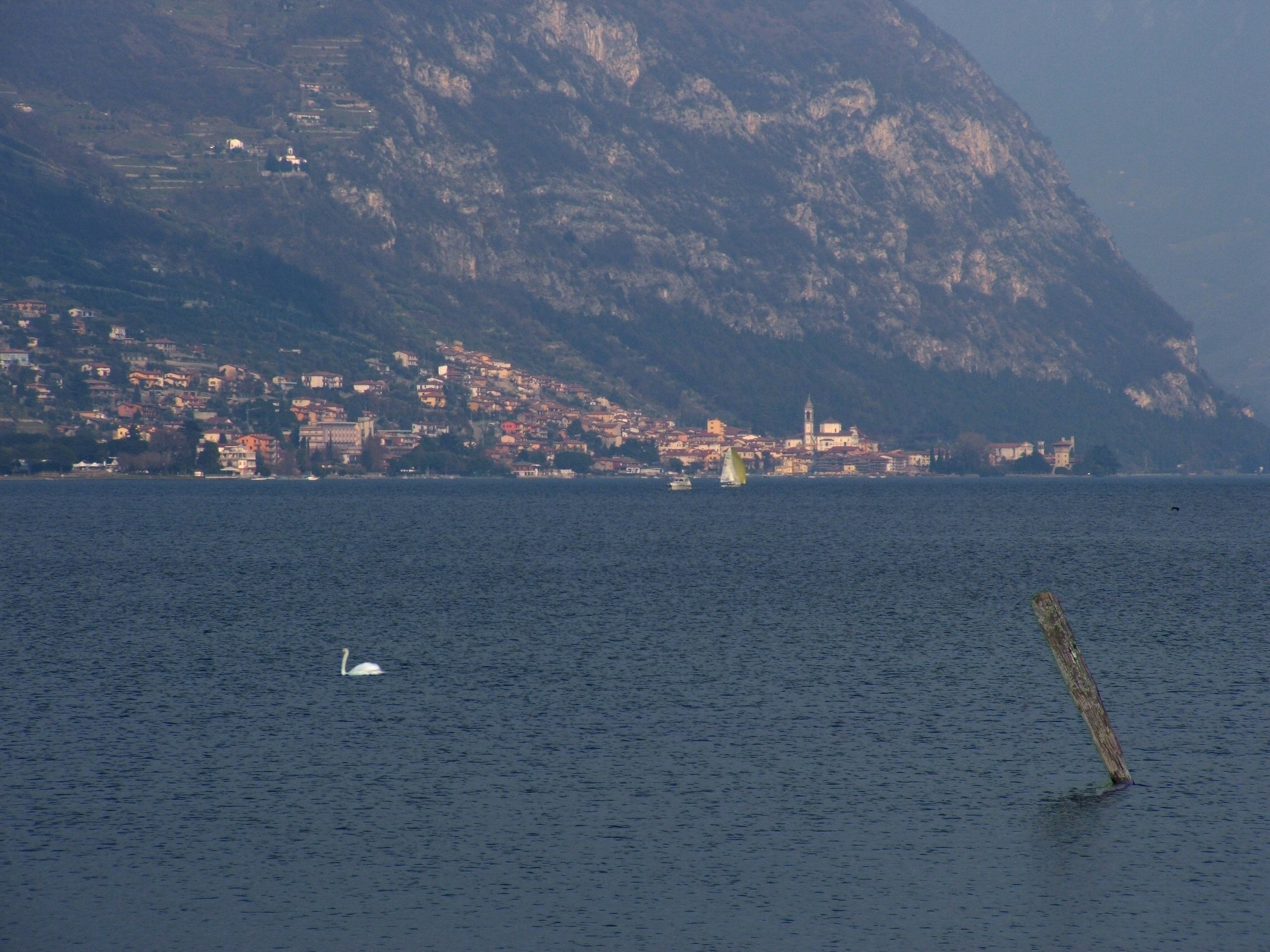 Predore, Bergamo, Lombardy, Italy - View from Paratico (BS) - Lake Iseo